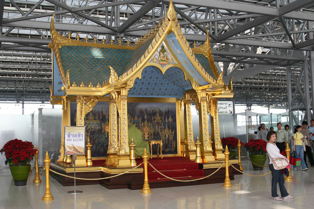 One of the structures at Suvarnabhumi airport in Bangkok.